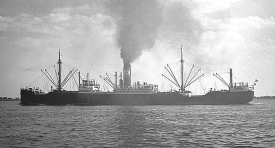 The brazilian steamer Lages under her former name Rauenfels (before 1917)